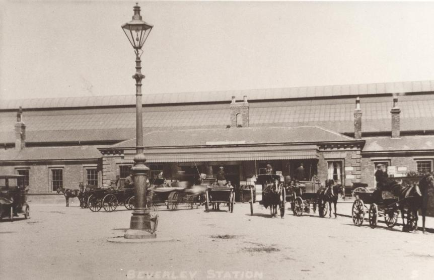 In this picture you can still see the original canopy at the front of the station building, before it was replaced in the 1960s. (Why not try searching our East Riding of Yorkshire Map for more historic images? ) (Copyright) We're happy for you to share this digital image within the spirit of Creative Commons. Please cite ' ' when reusing. Certain restrictions on high quality reproductions and commercial use of the original physical version apply. If unsure please